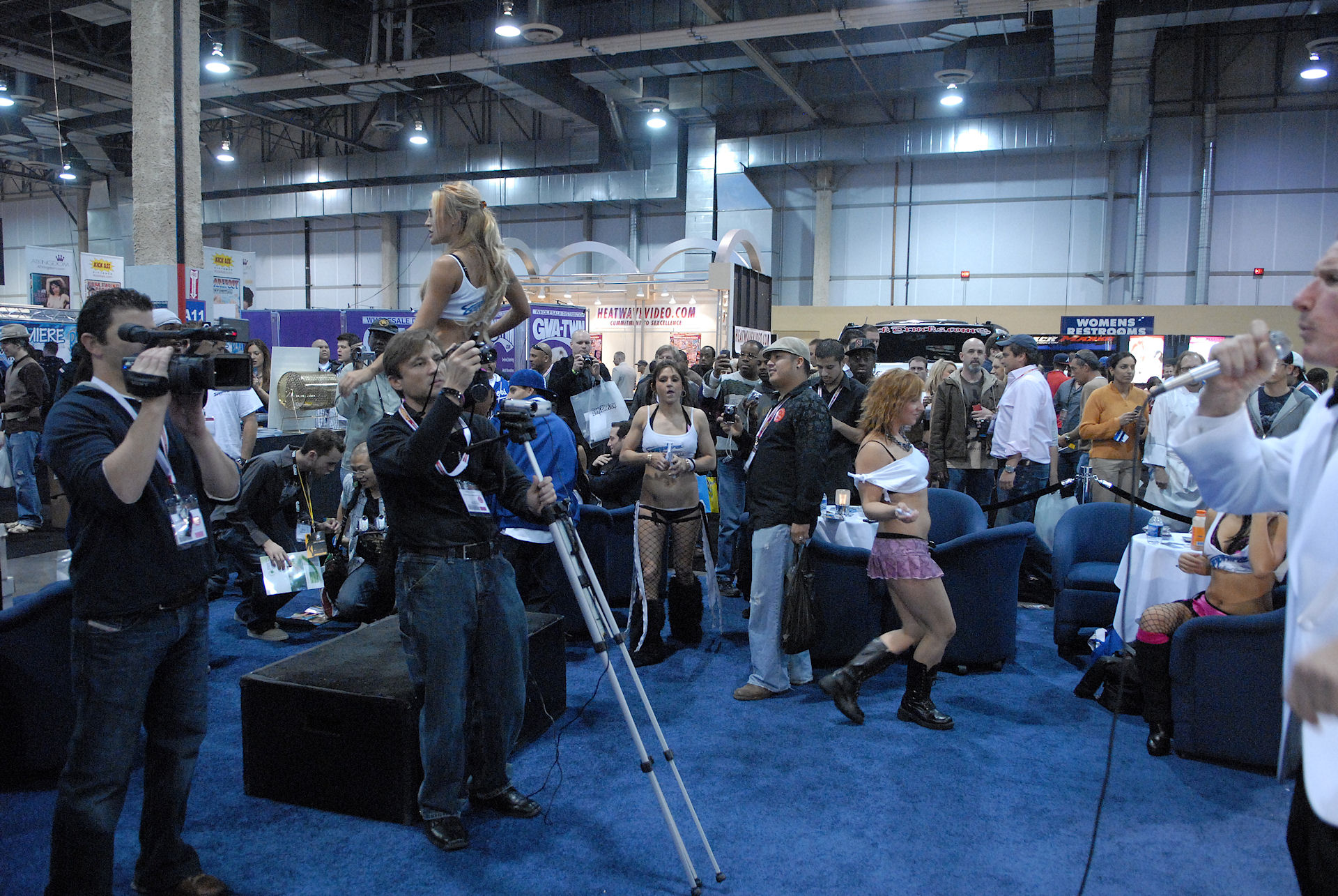 Sapphires booth at AVN Adult Entertainment Expo 2009